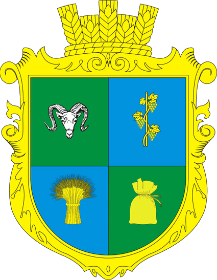 The coat of arms of the village of Kalcheva, Bolhrad Raion, Odessa Oblast, Ukraine